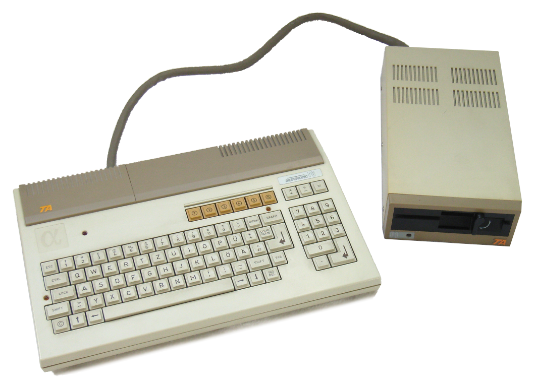 Alphatronic PC computer manufactured by Triumph-Adler AG, Nürnberg, Germany. Built probably in 1984. Private photo from May 2006.